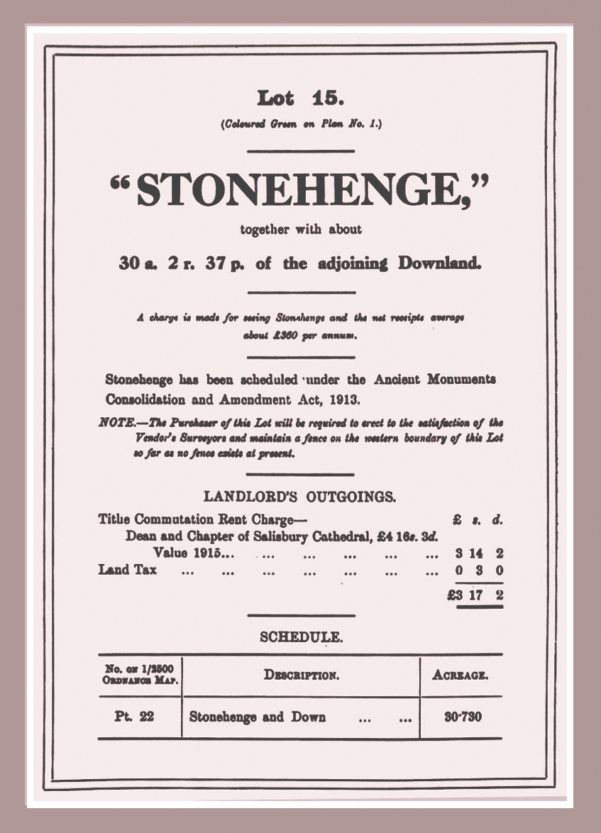 Advertisement of auction by Knight Frank & Rutley estate agents in Salisbury was held on 21 September 1915 and included "Lot 15. Stonehenge with about 30 acres, 2 rods, 37 perches [12.44 ha] of adjoining downland."